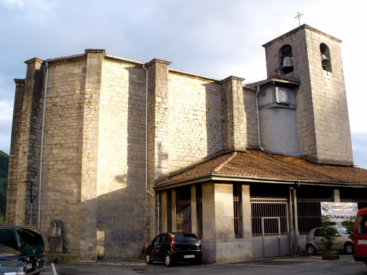 Iglesia de San Juan Bautista, en Anoeta (Guipúzcoa)